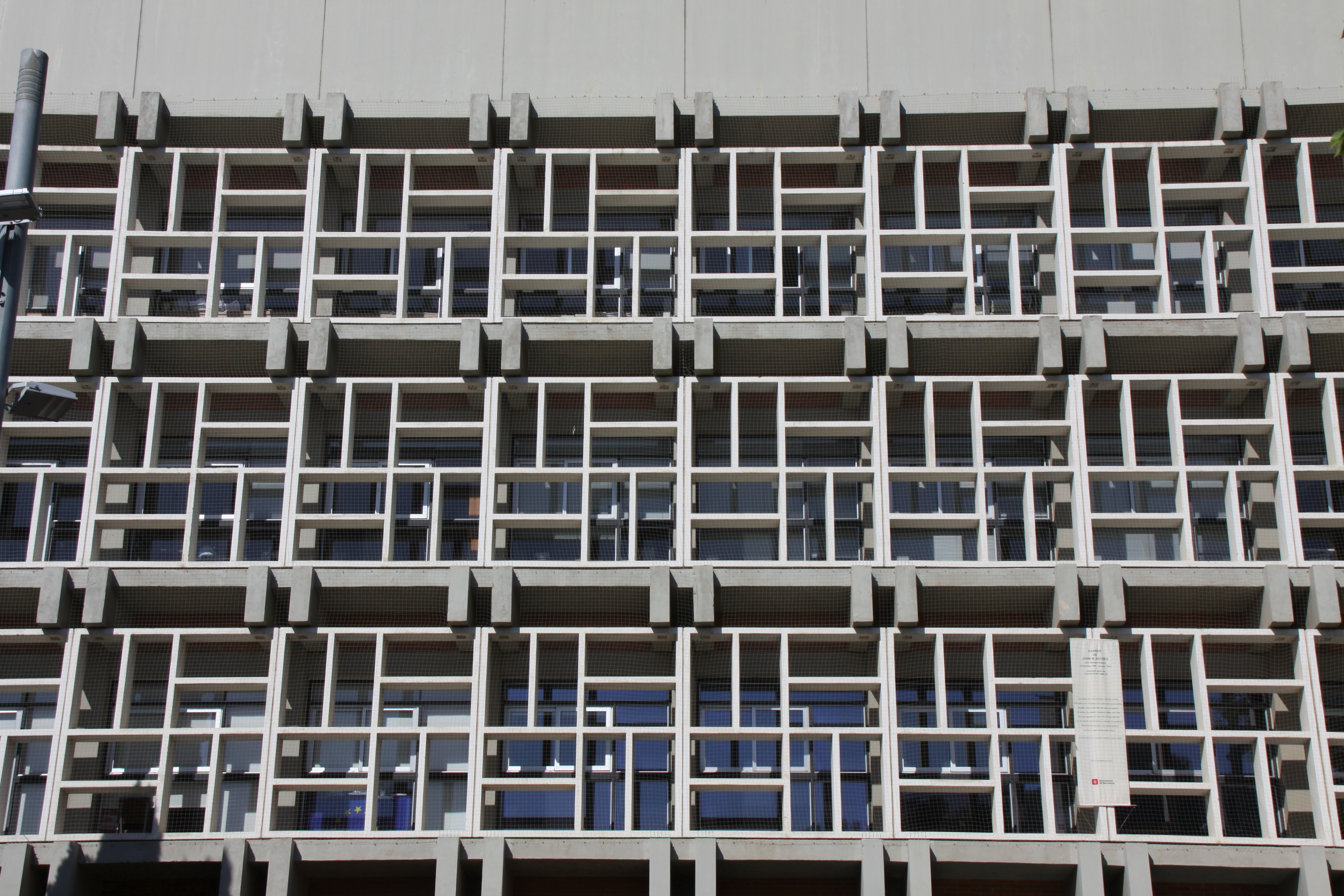 Building of the Faculty of Economics and Business Studies of Barcelona University (1962-66), by Giráldez, López Íñigo and Subías.